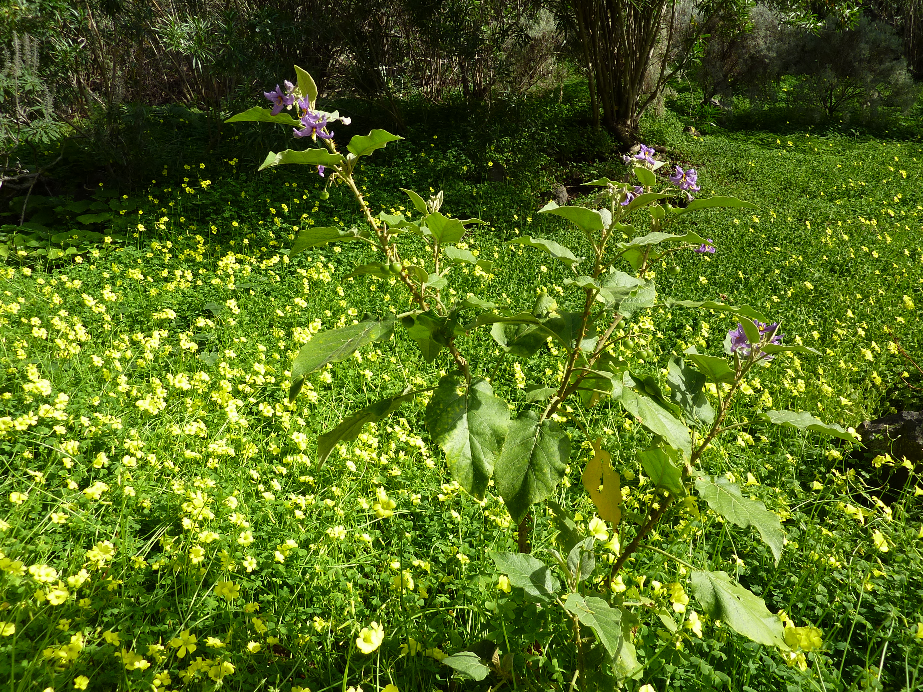 Solanum vespertilio in the Jardín Botánico Canario Viera y Clavijo.